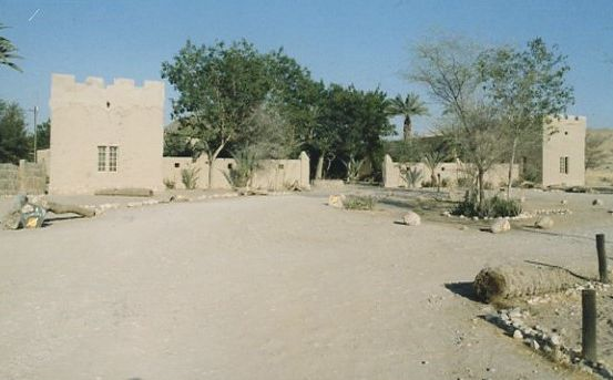 The outside of the fort